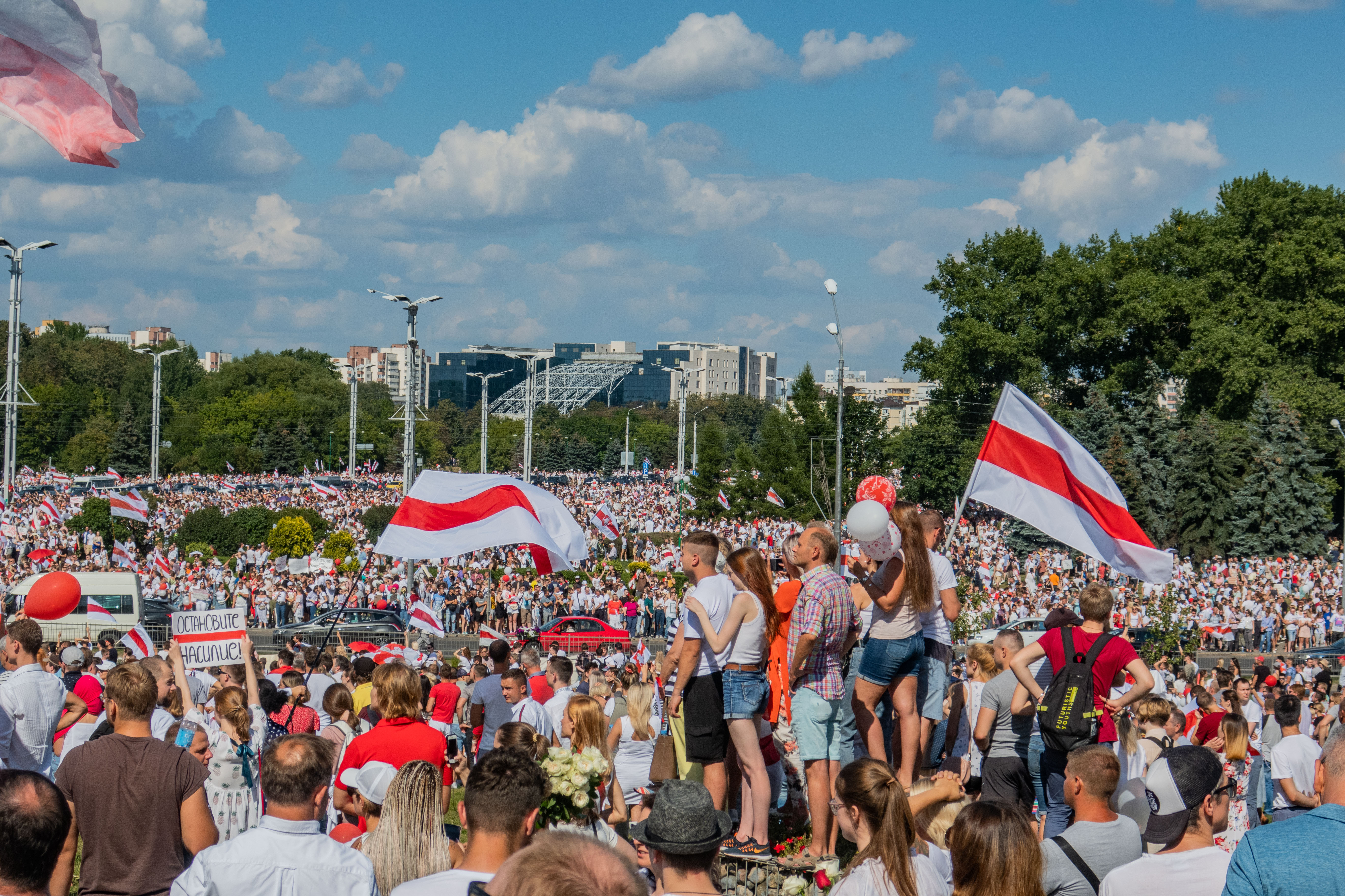 Protest rally against Lukashenko, 16 August. Minsk, Belarus